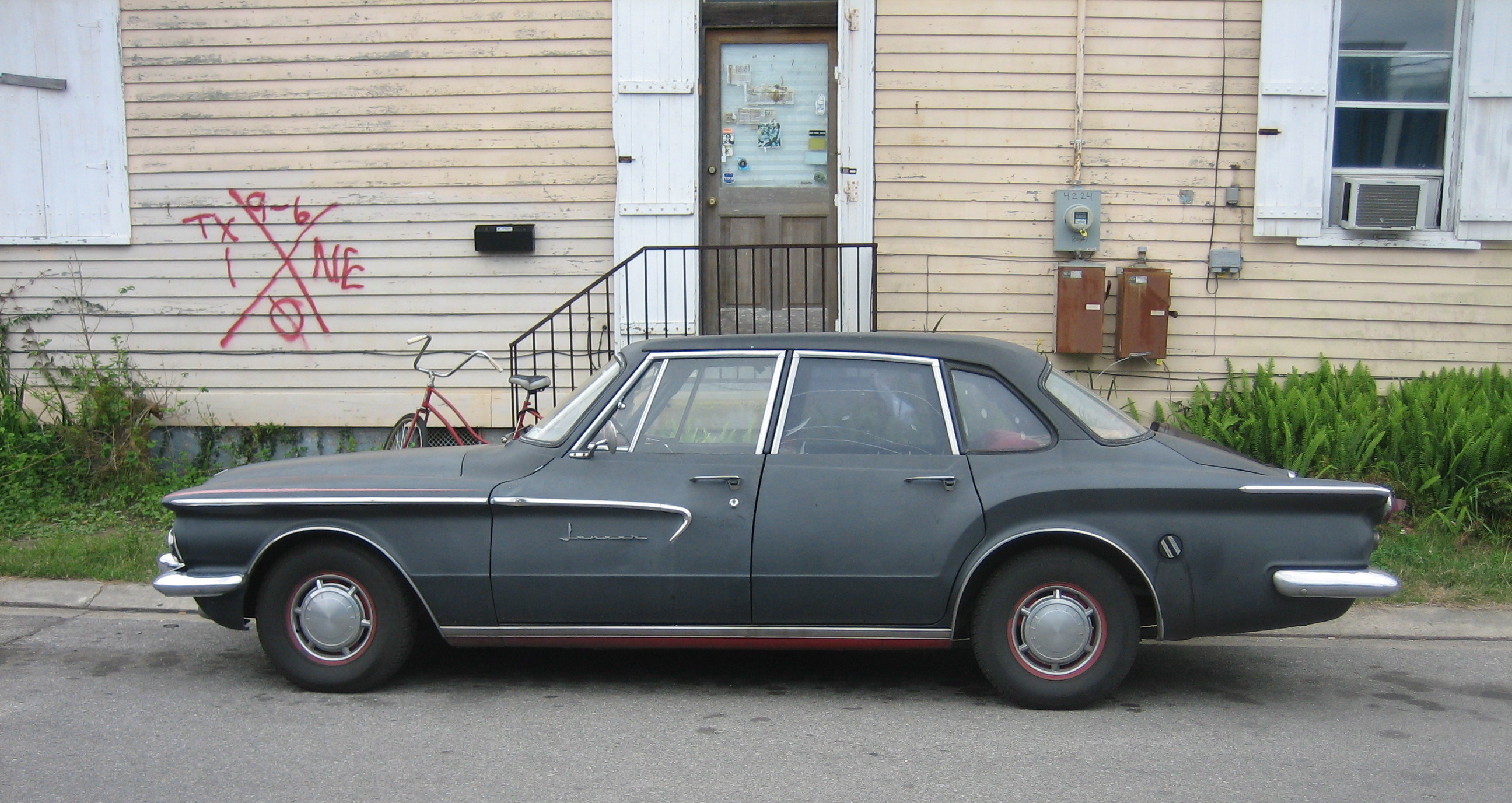 Old Dodge Lancer (1962?) on street in Bywater section, New Orleans